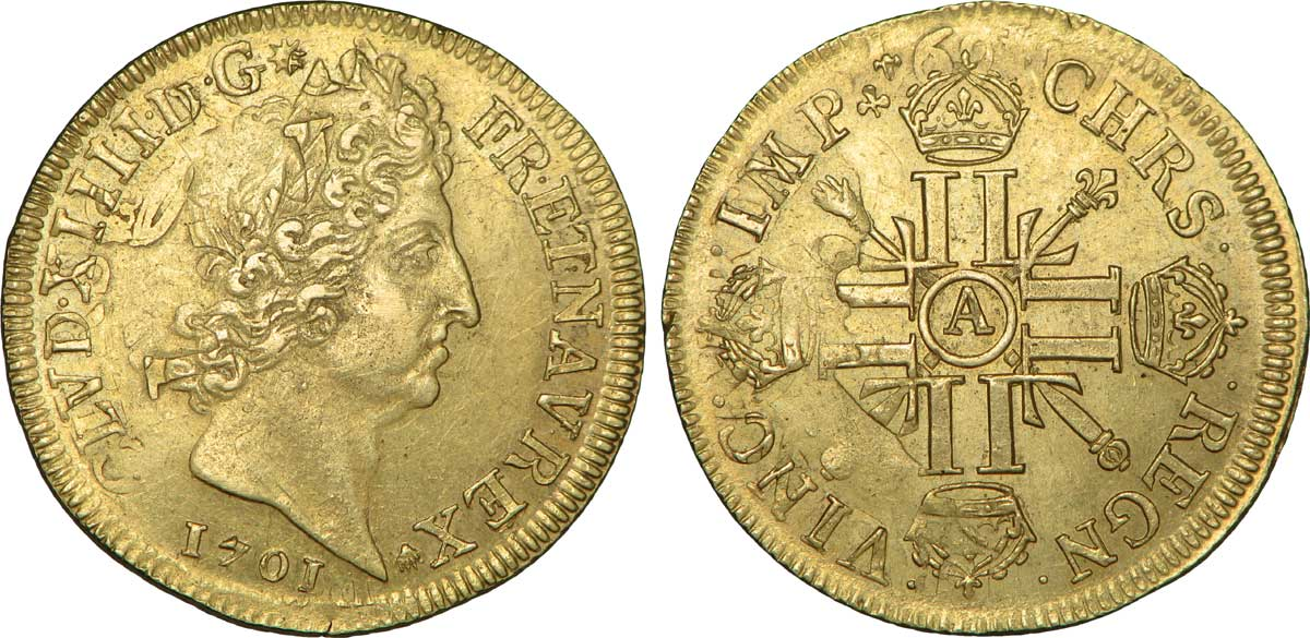 Double louis d'or aux huit L et insignes à l'effigie de Louis XIV, 1701. Le roi vieilli est néanmoins représenté avec toute la volonté d'un monarque énergique.